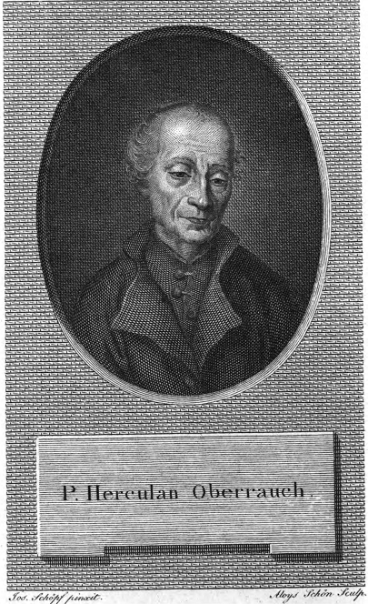 Herculan Oberrauch